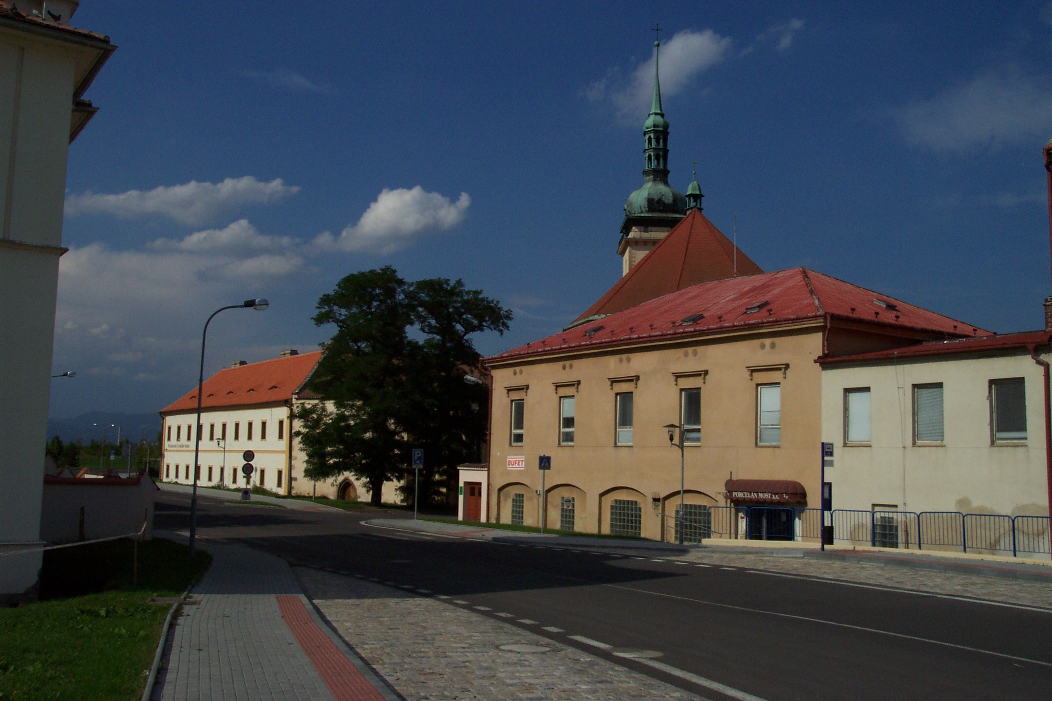 The only street of the old Most that remained - Jediná ulice Starého Mostu, která se dochovala dodnes